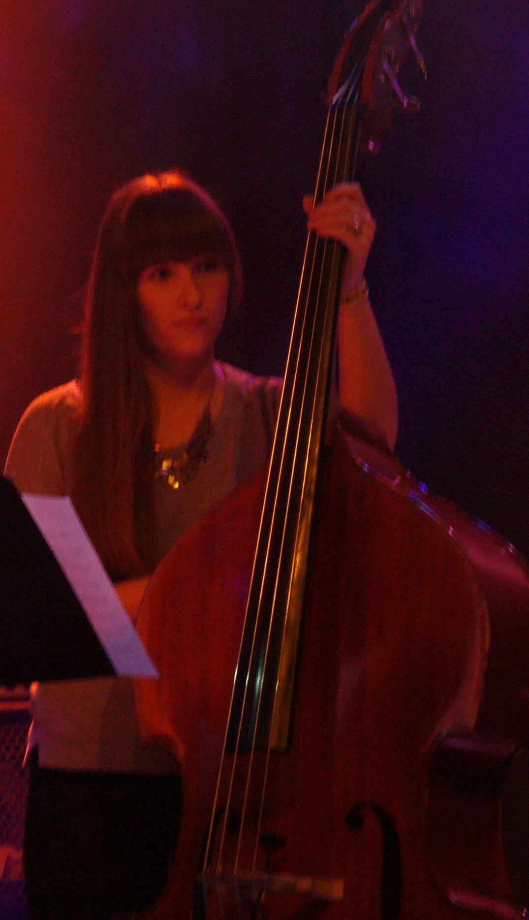 Ellen Andrea Wang at Vossajazz April 11, 2014